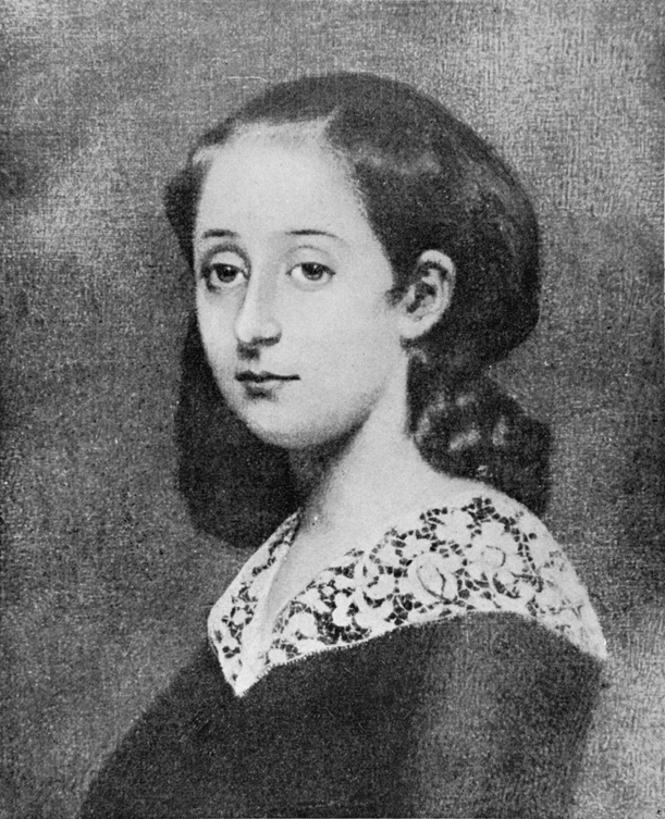 Photograph of Aline Chazal, married Aline Gauguin, c. 15 years old